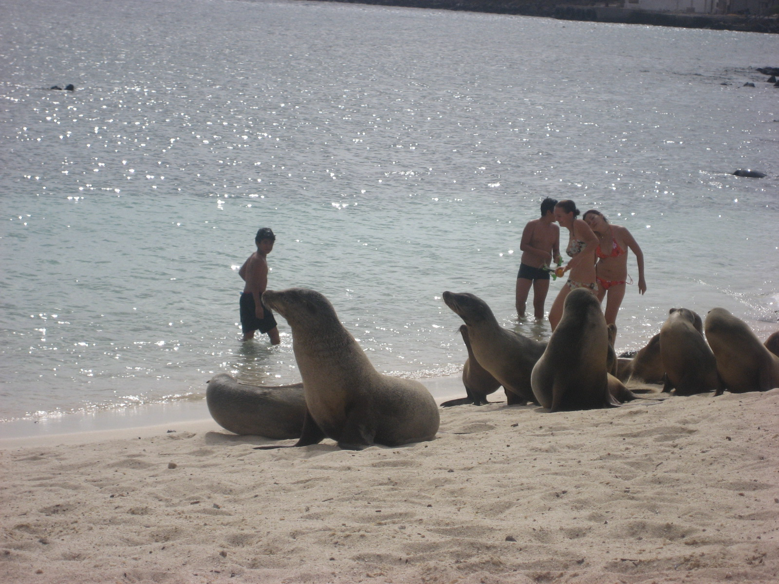 Tourists at the Mann beach with sealions.